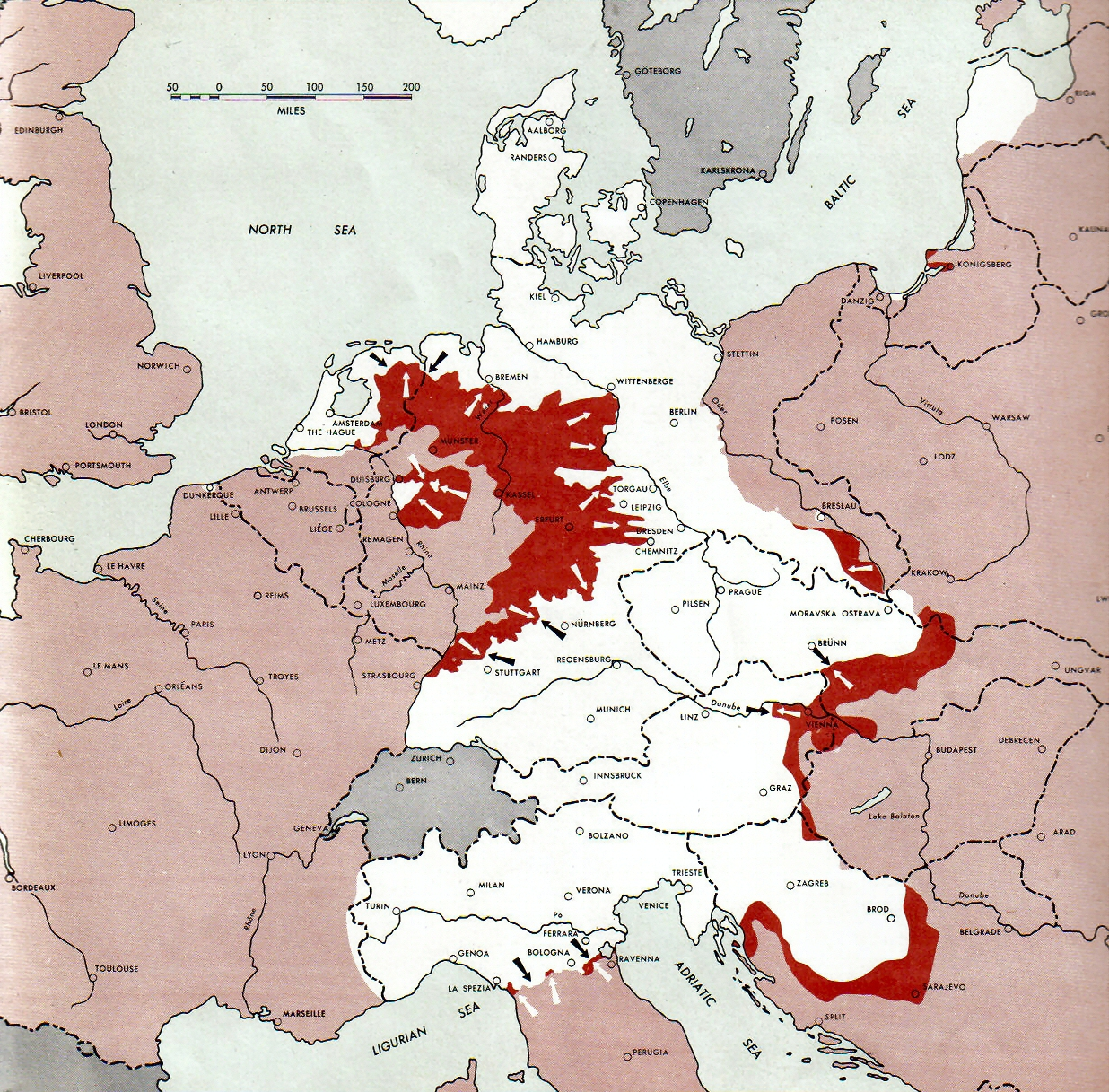 Map of the front against Germany: This map is taken from the source "Atlas of the World Battle Fronts in Semimonthly Phases to August 15th 1945: Supplement to The Biennial report of The Chief of Staff of the United States Army July 1, 1943 to June 30 1945 To the Secretary of War". (See Cover, Forward and Map details)